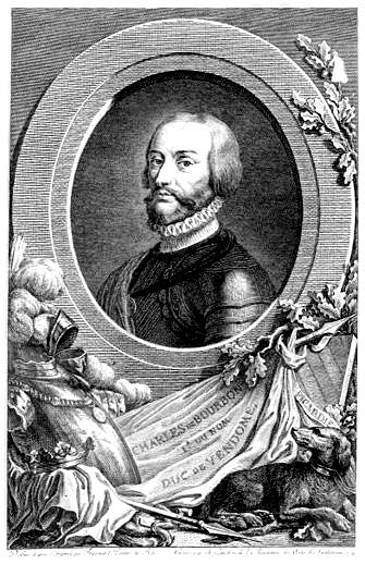 Portrait of Charles IV, Duc of Bourbon (1489—1537), bust, three-quarters left, inscribed in an oval decorated with draperies and military attributes